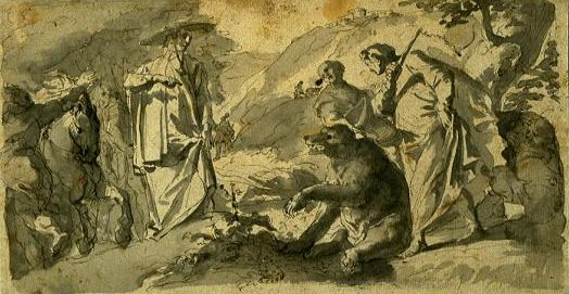 St Corbinian of Freising and the Bear (brown ink and gray wash)